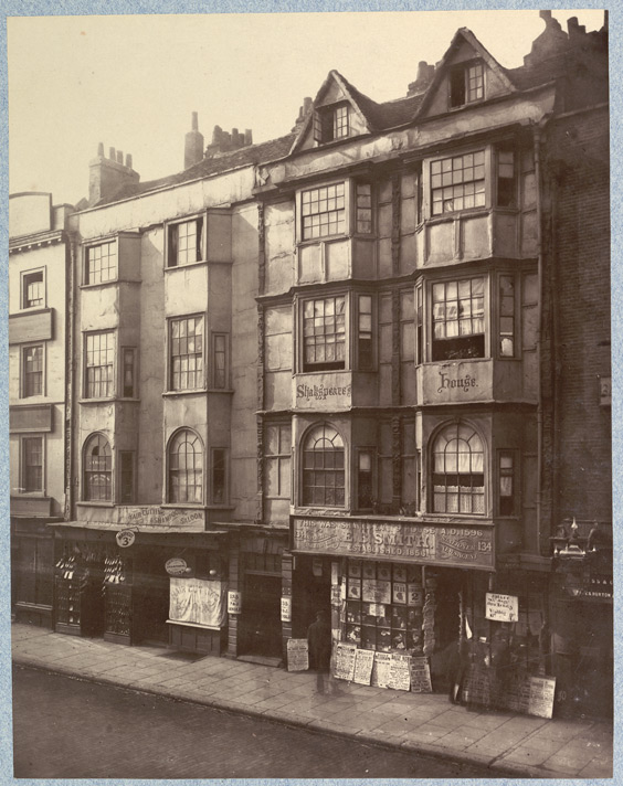 134 Aldersgate Street, London. Courtesy of British Library.